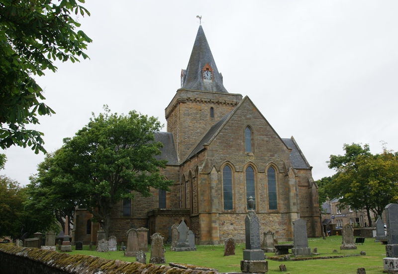 Dornoch Cathedral, Dornoch, Highland, Scotland